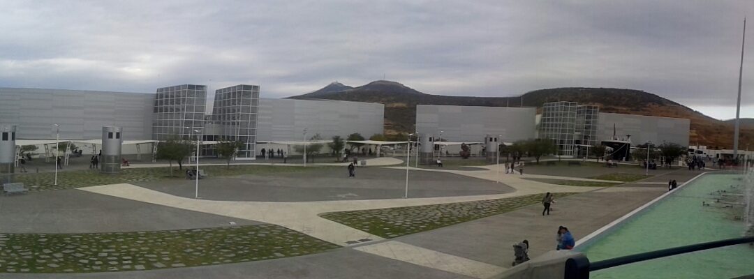 Panoramic shot of the instalations of the Expo Bicentenario near Silao, Guanajuato, Mexico. It was built in 2010 as part of the celebrations of the Bicentenary of mexican independence. Nowadays is used as a museum.